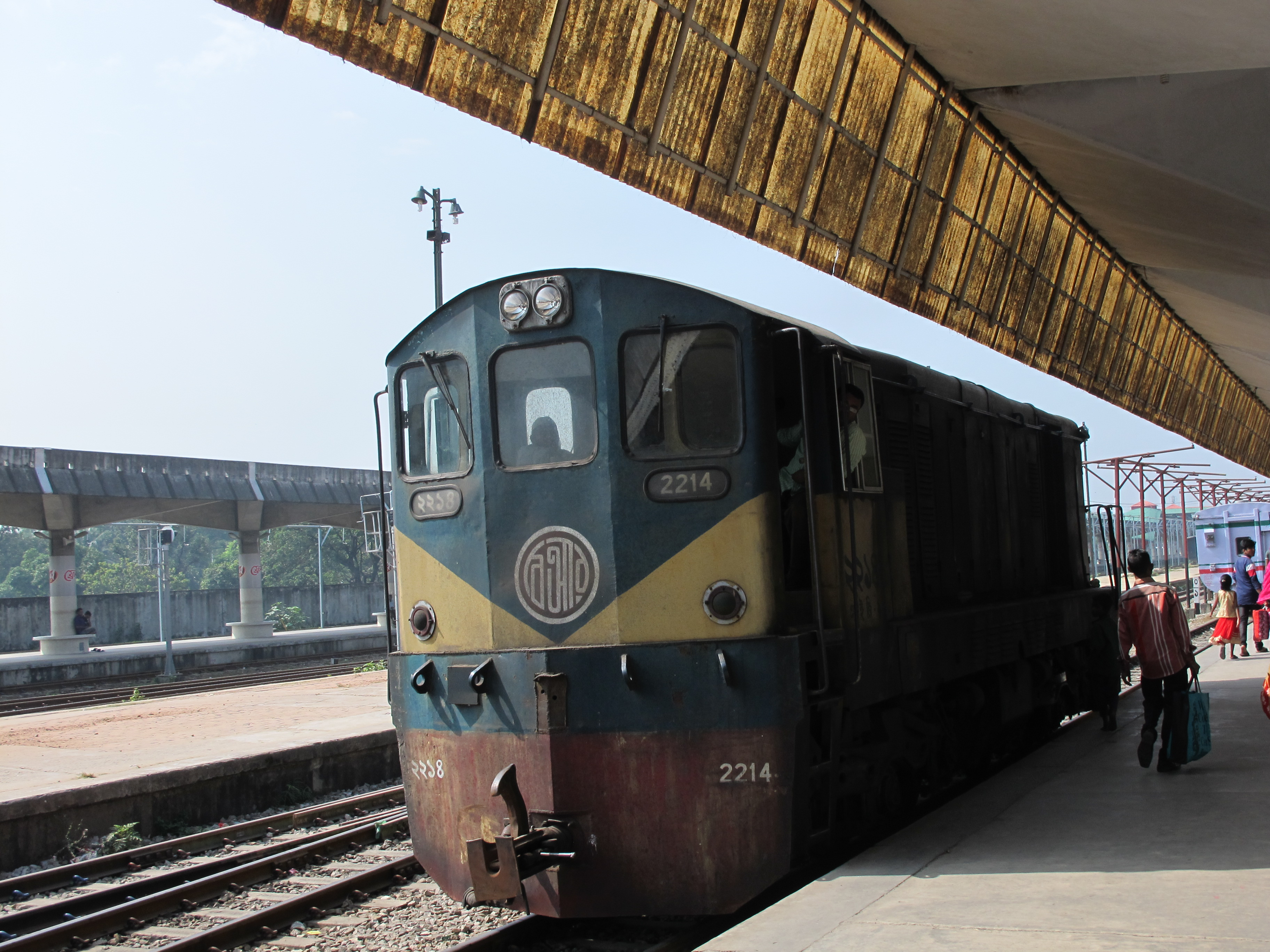 Train at the Battali Railwaystation in Chittagong